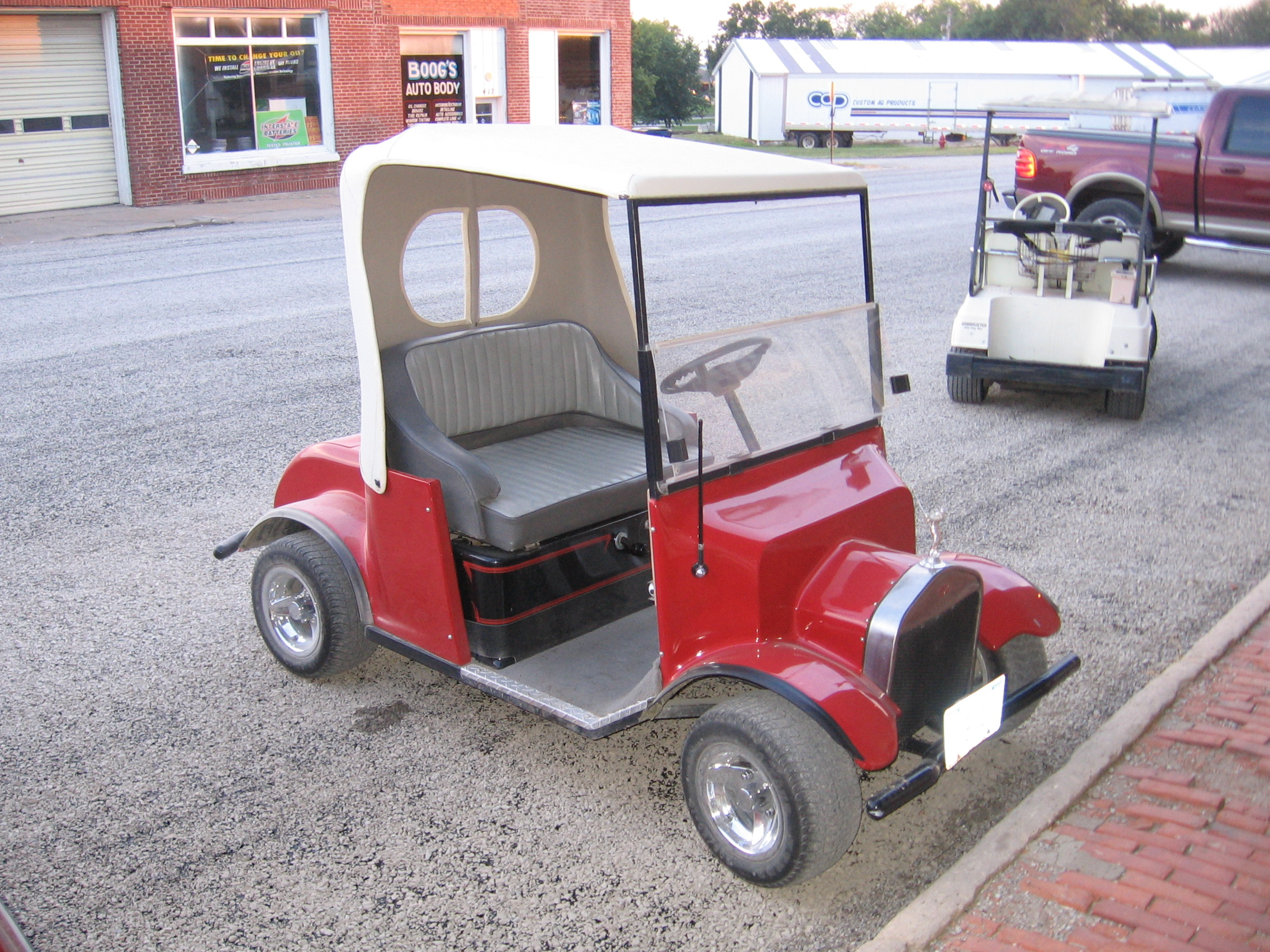 Original Photo by Xiphos